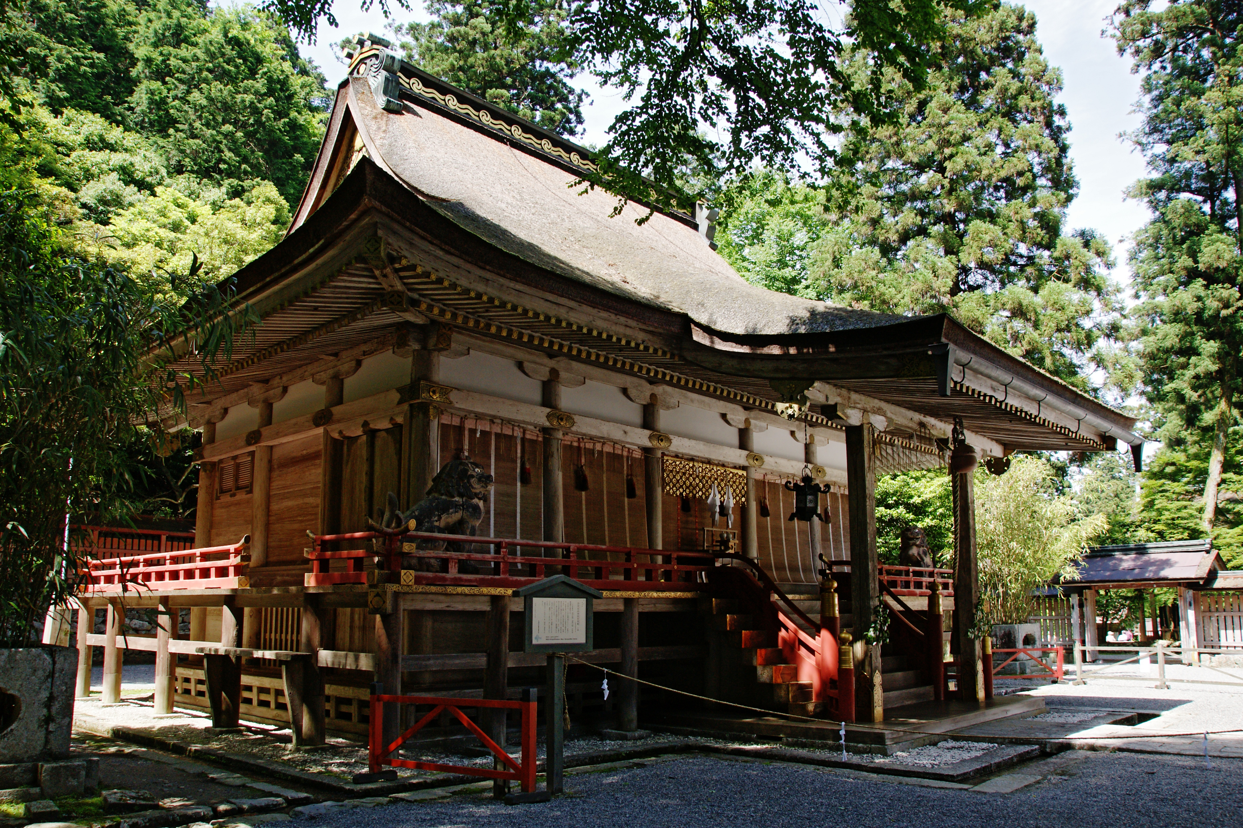 Hiyoshi Taisha in Otsu, Shiga prefecture, Japan